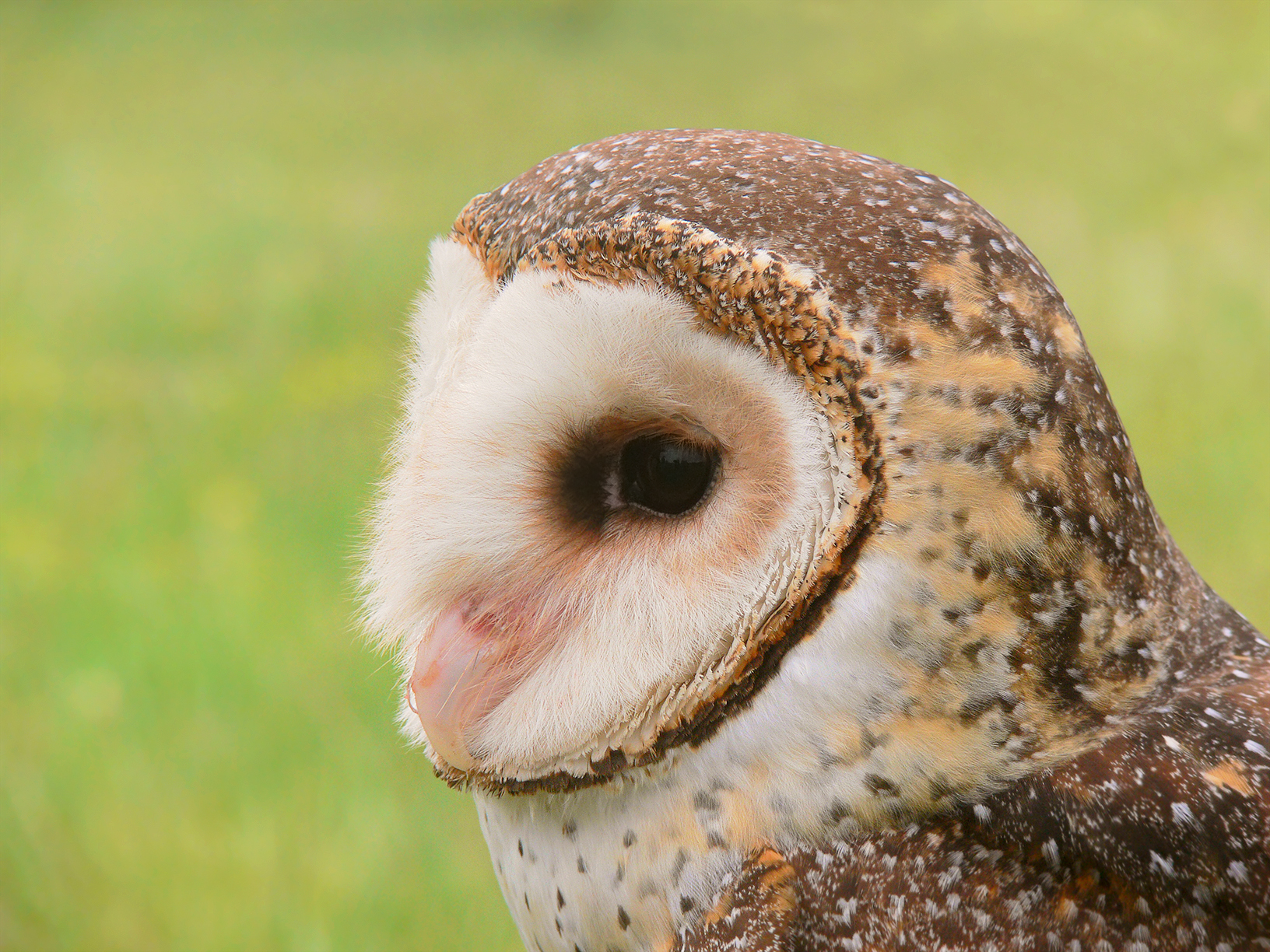 A Masked owl Tyto novaehollandiae , taken at a Traveling Raptor flight display in south-eastern Australia.